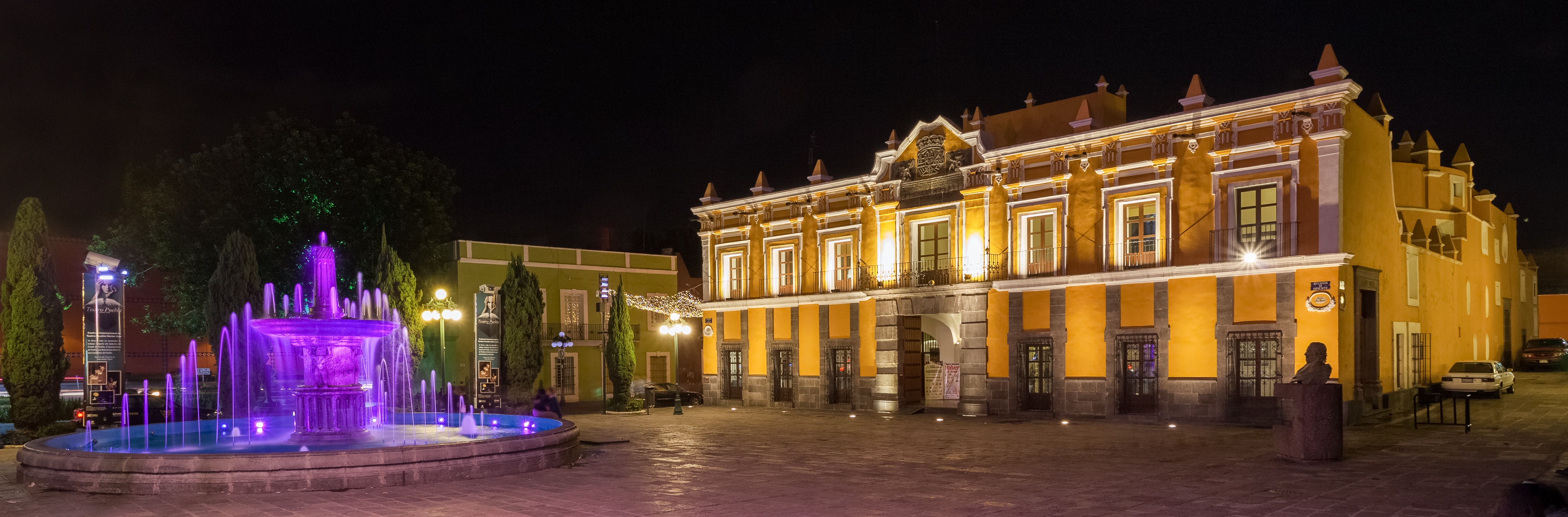 Teatro Principal, Puebla, Mexico